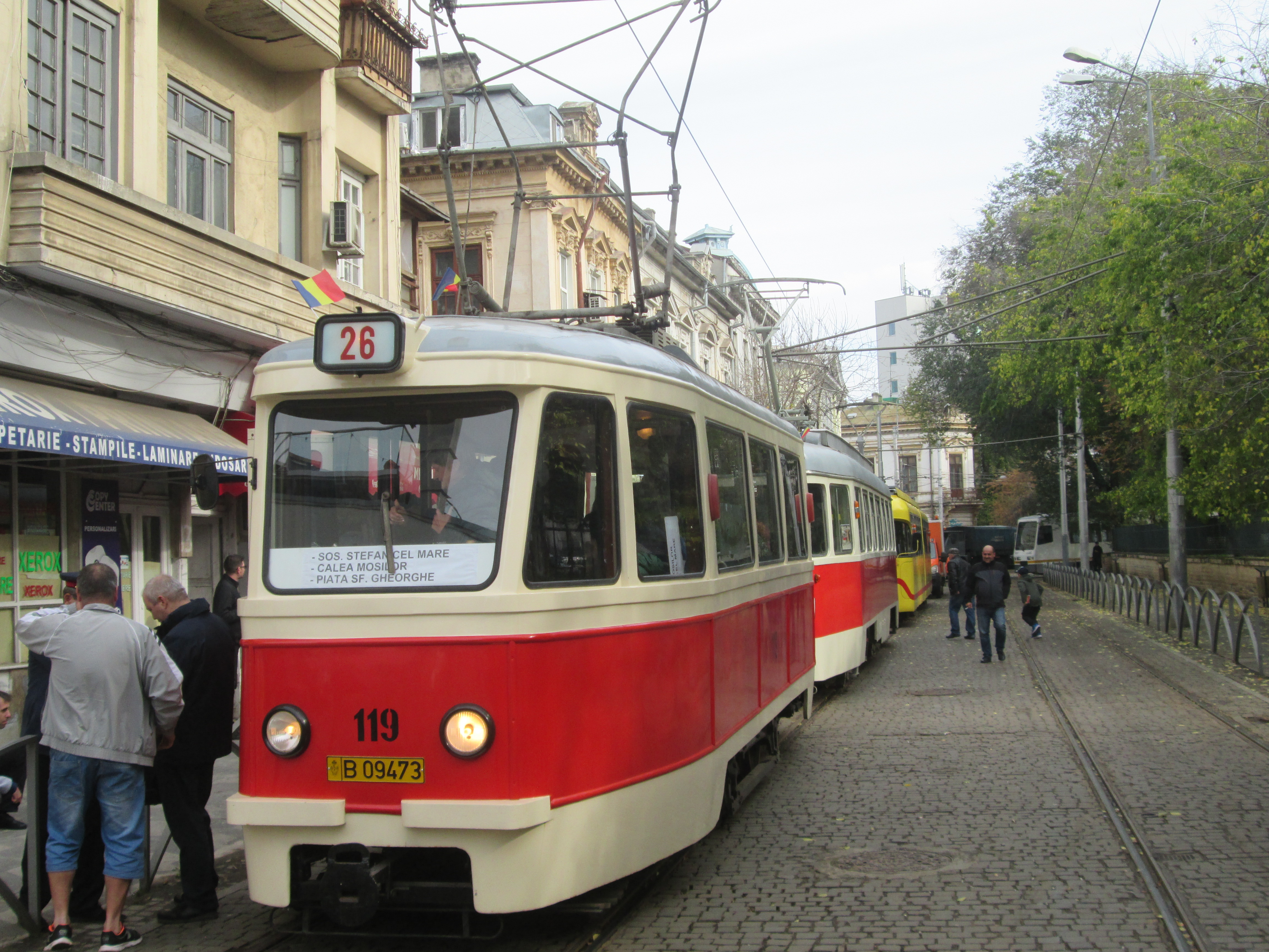 Tram number 119 (type V56) at Sf. Georghe square